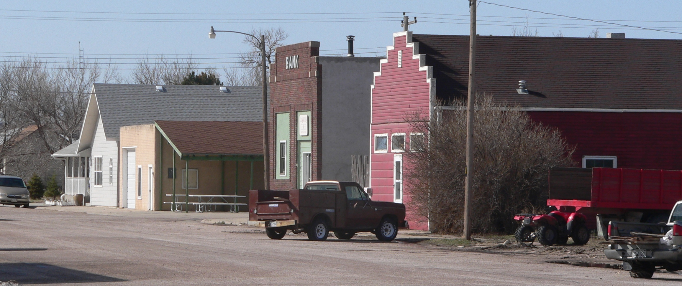 Downtown Melbeta, Nebraska: west side of Main Street. Camera is facing southwest.